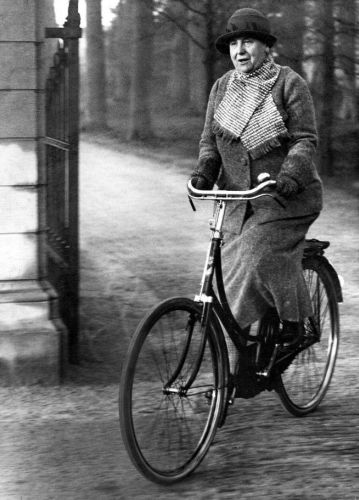 Koningin Wilhelmina fietsend in de tuinen van Paleis Soestdijk, 1938, Fongers rijwiel